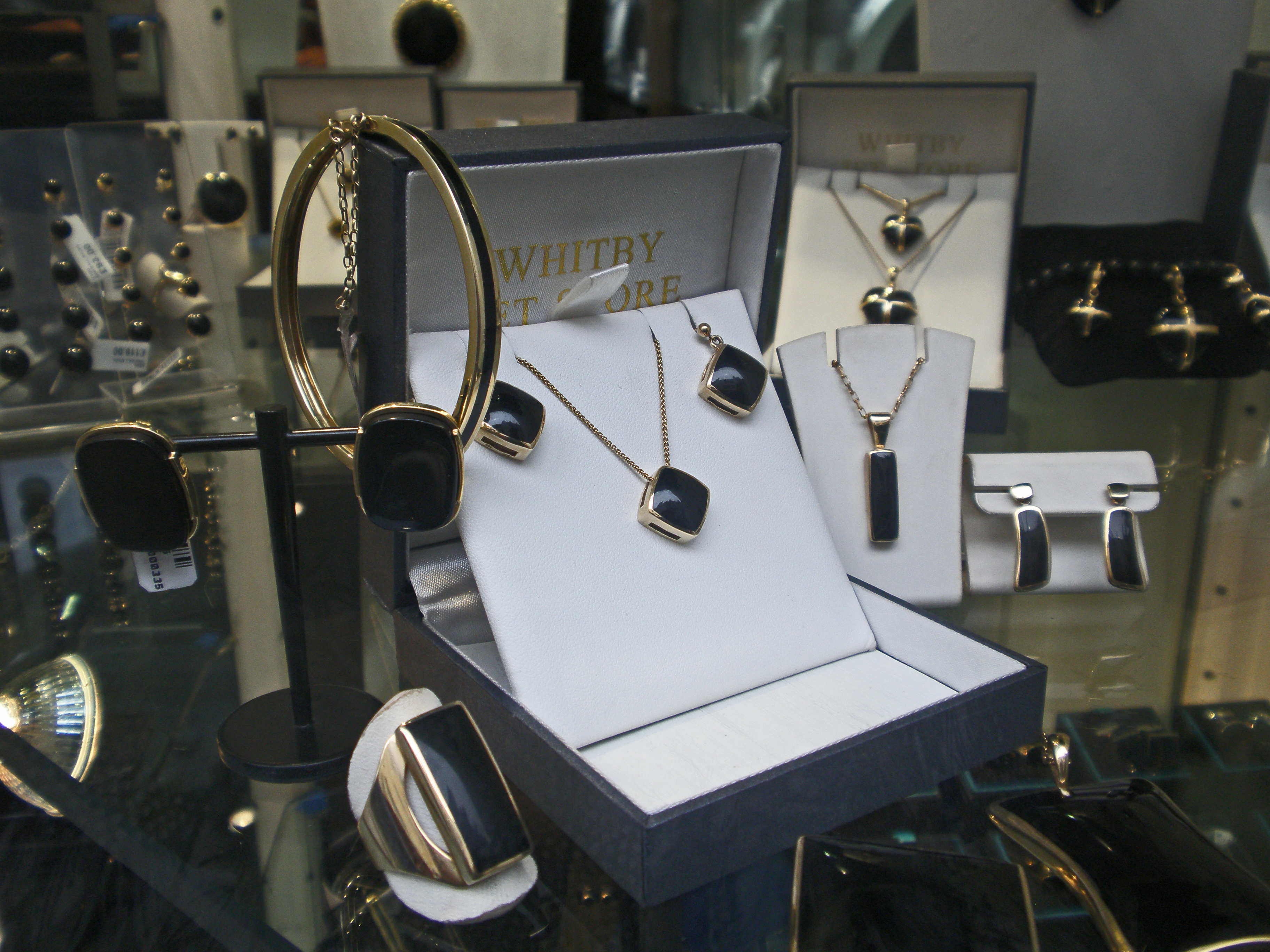 Rainy trip on the NYM Railway